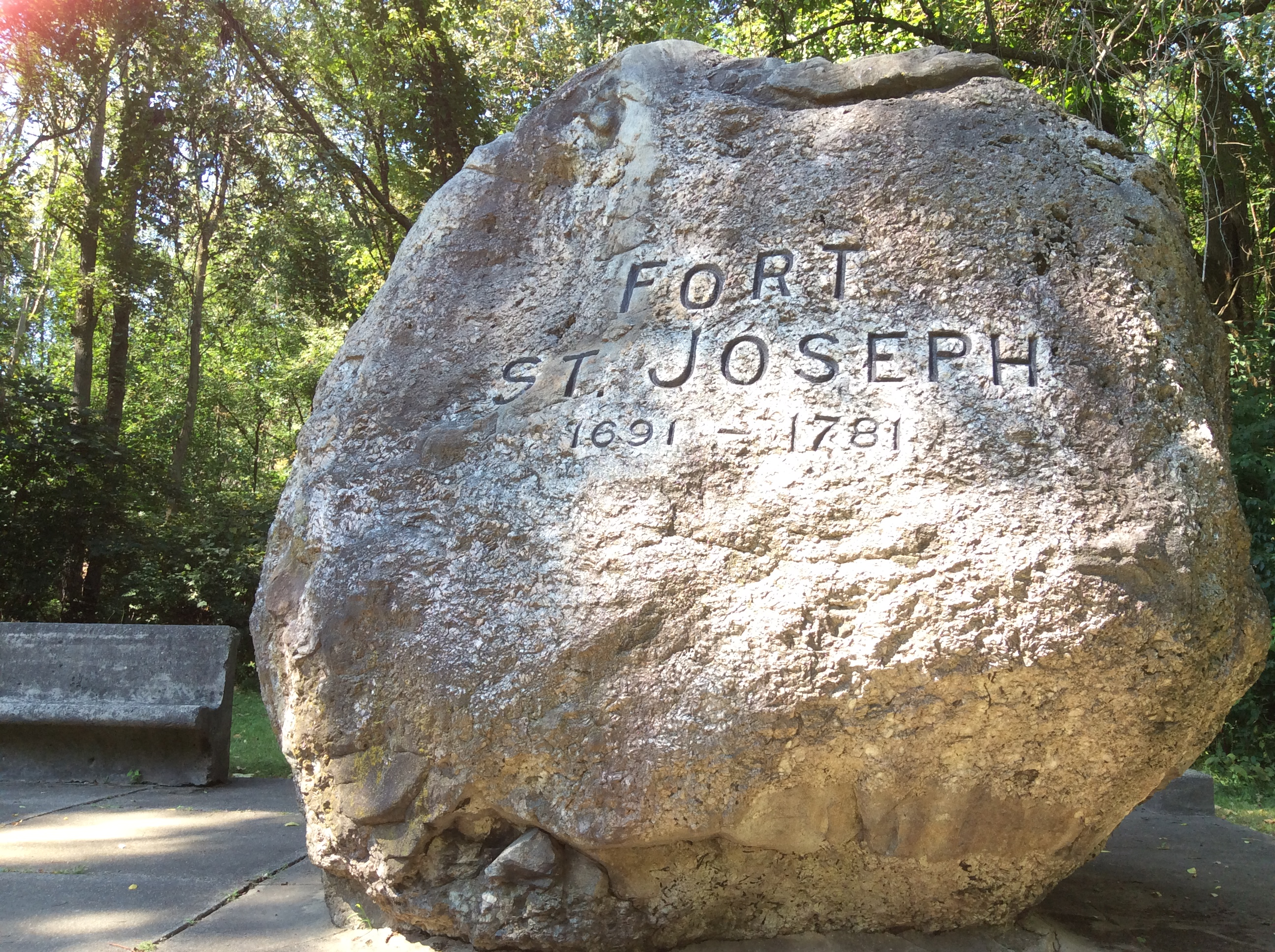 Niles, MI